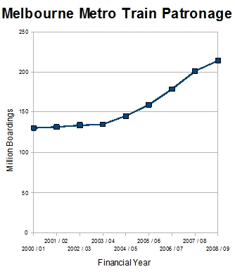 Metropolitan Train patronage in Melbourne from government data [1] and [2]